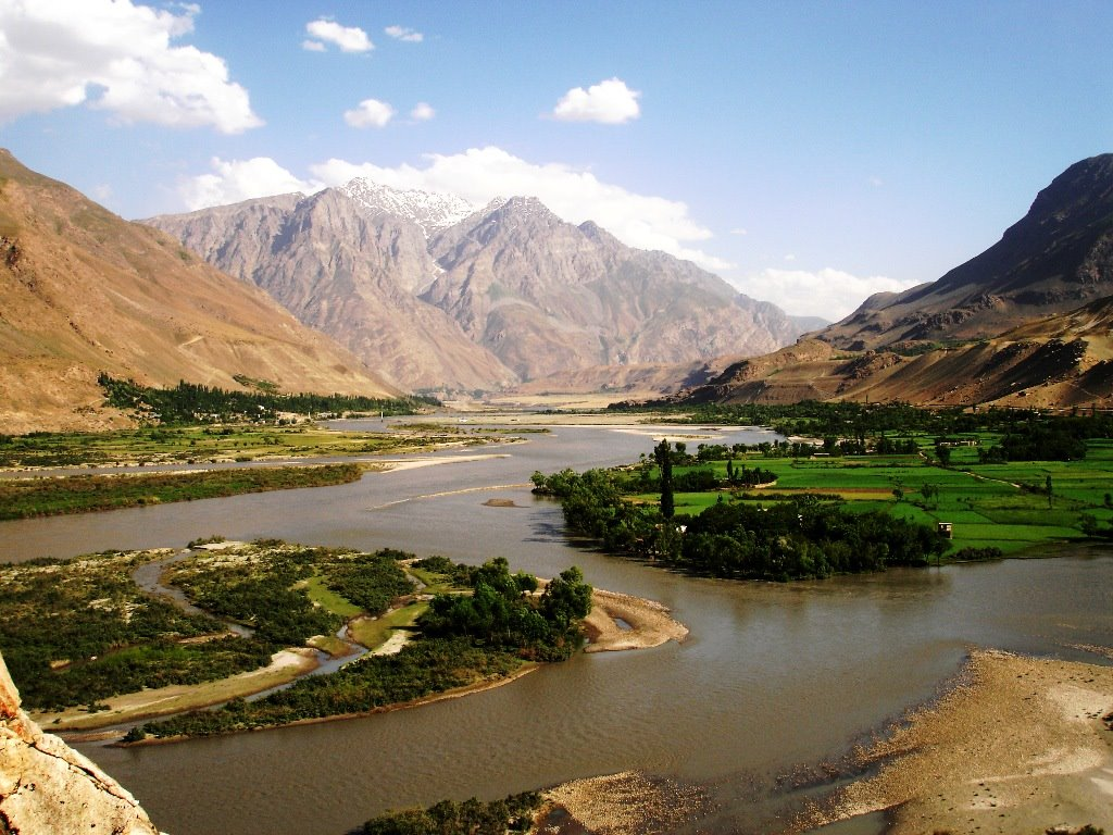 Beautiful view of Panj river, of the border between Afghanistan and Tajikistan the in Shughnon-shughnan region